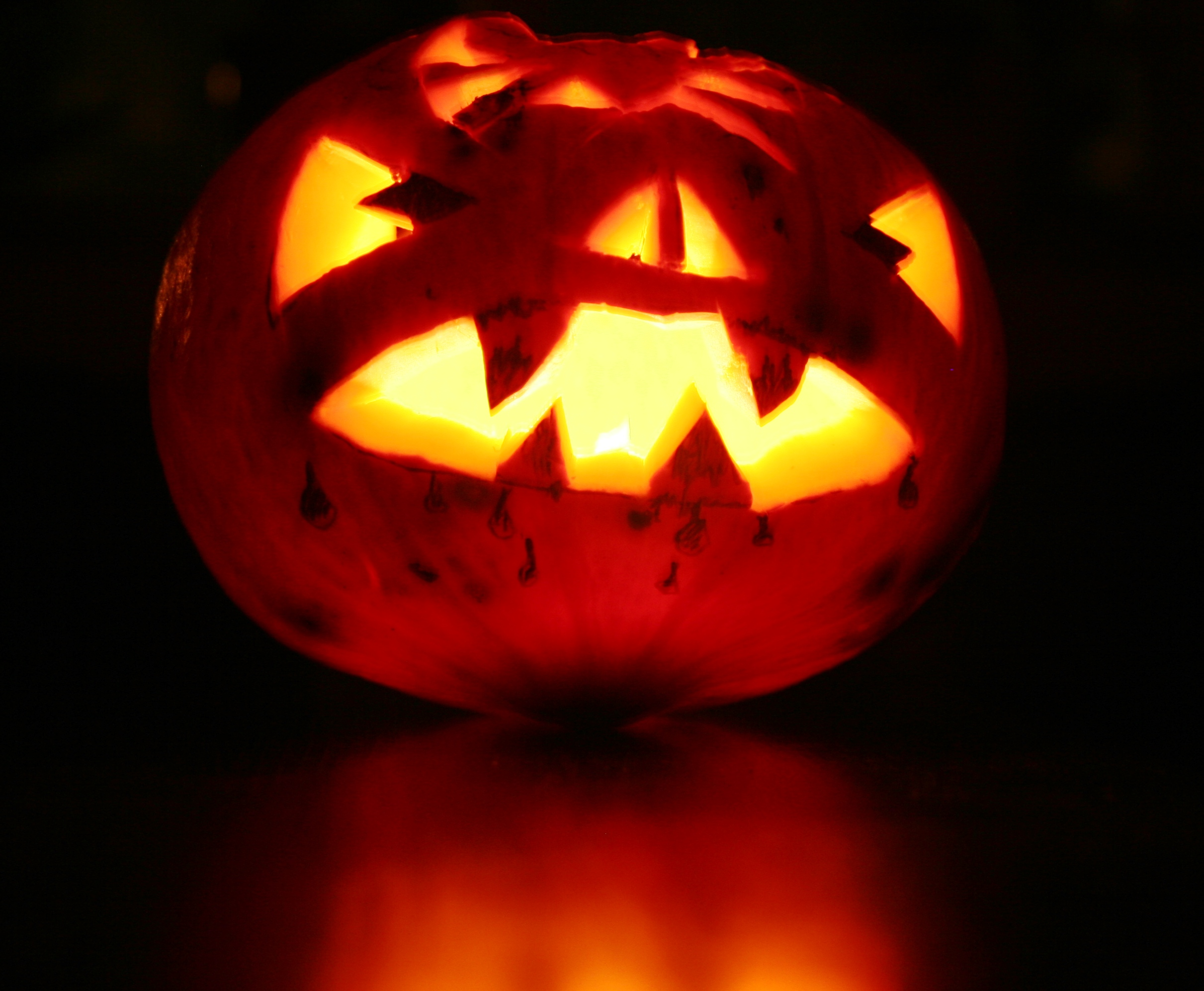 A frightful Halloween pumpkin